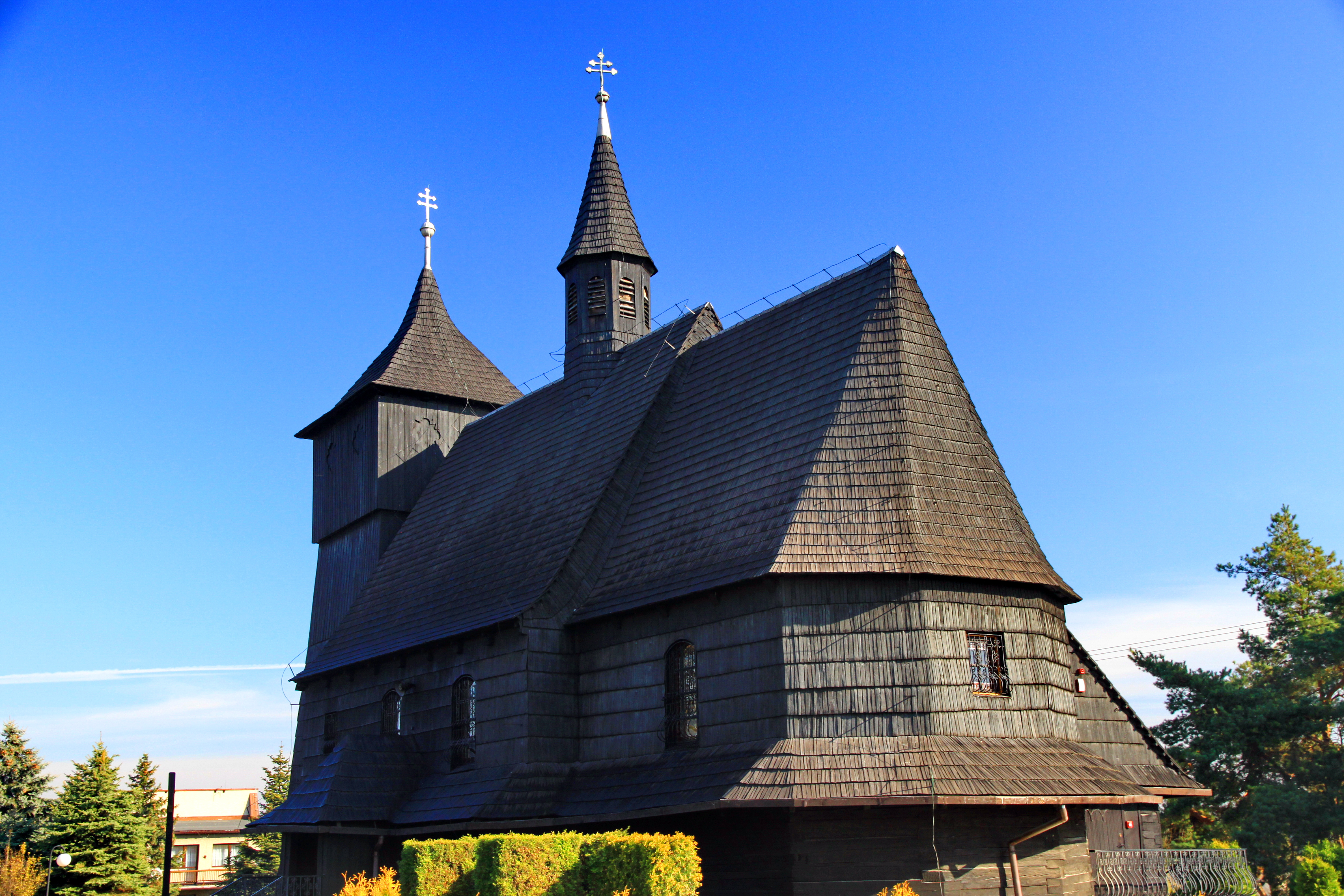 Rybnik, parish church of Saint Catherine, build in 1534, 1676, 1976